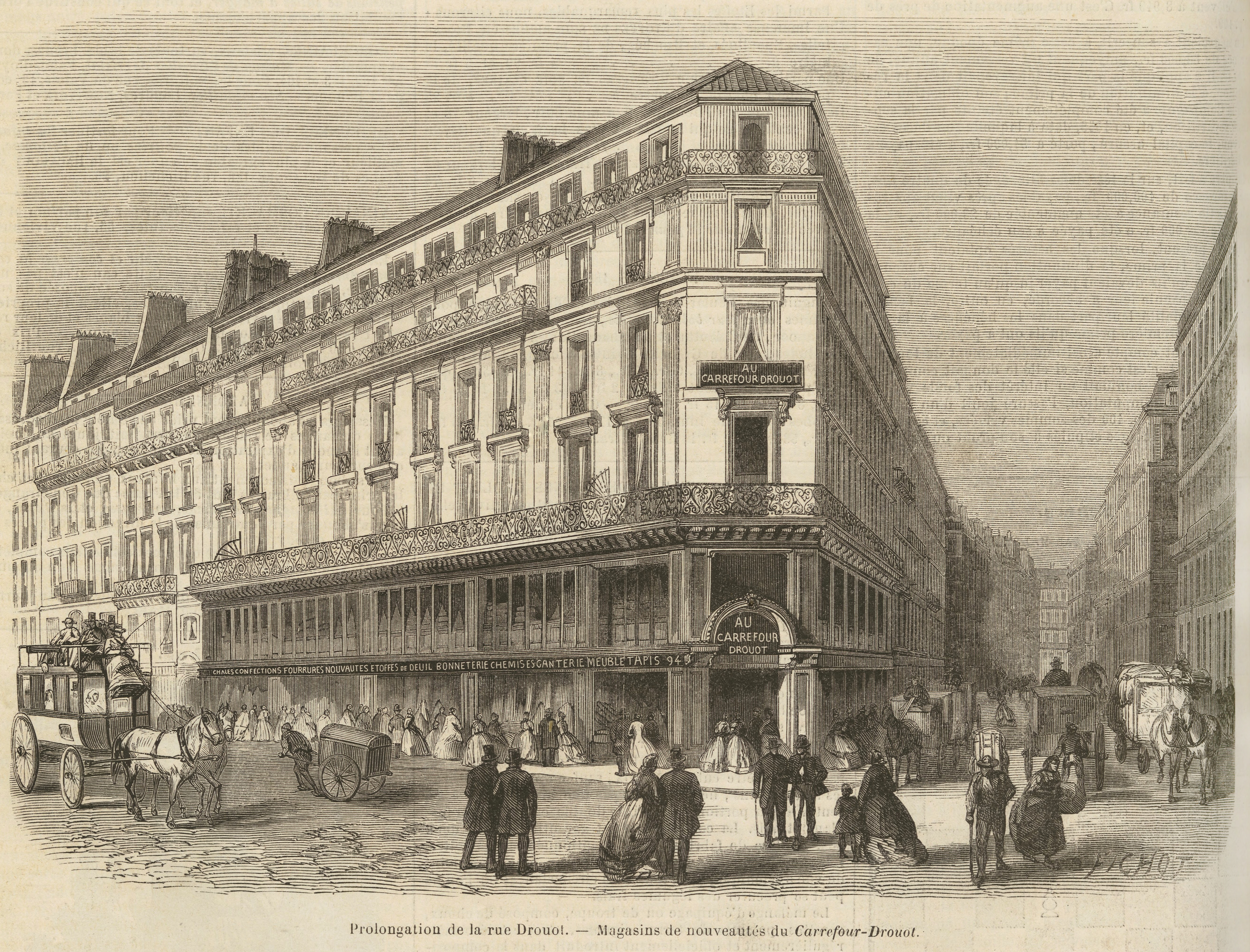 The rue Drouot was created in the early eighteenth century, but it was extended in the second half of the nineteenth century, following the "Haussmannization" of Paris. The street housed many "magasins de nouveautés", as well as the famous Hôtel Drouot, which, to this day, is the most renowned auction gallery in the French capital city.